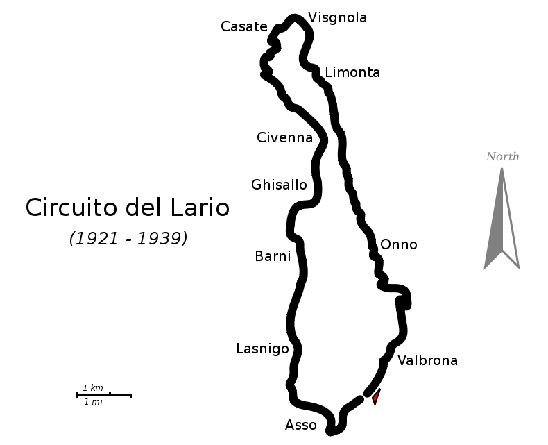 Lario Circuit Map in use from 1921 to 1939, own work